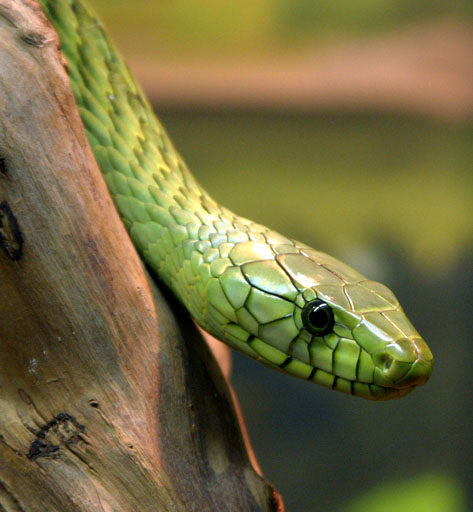 Western Green Mamba, Dendroaspis viridis, captive animal. Location: Jacksonville Zoo, Jacksonville, Florida, United States